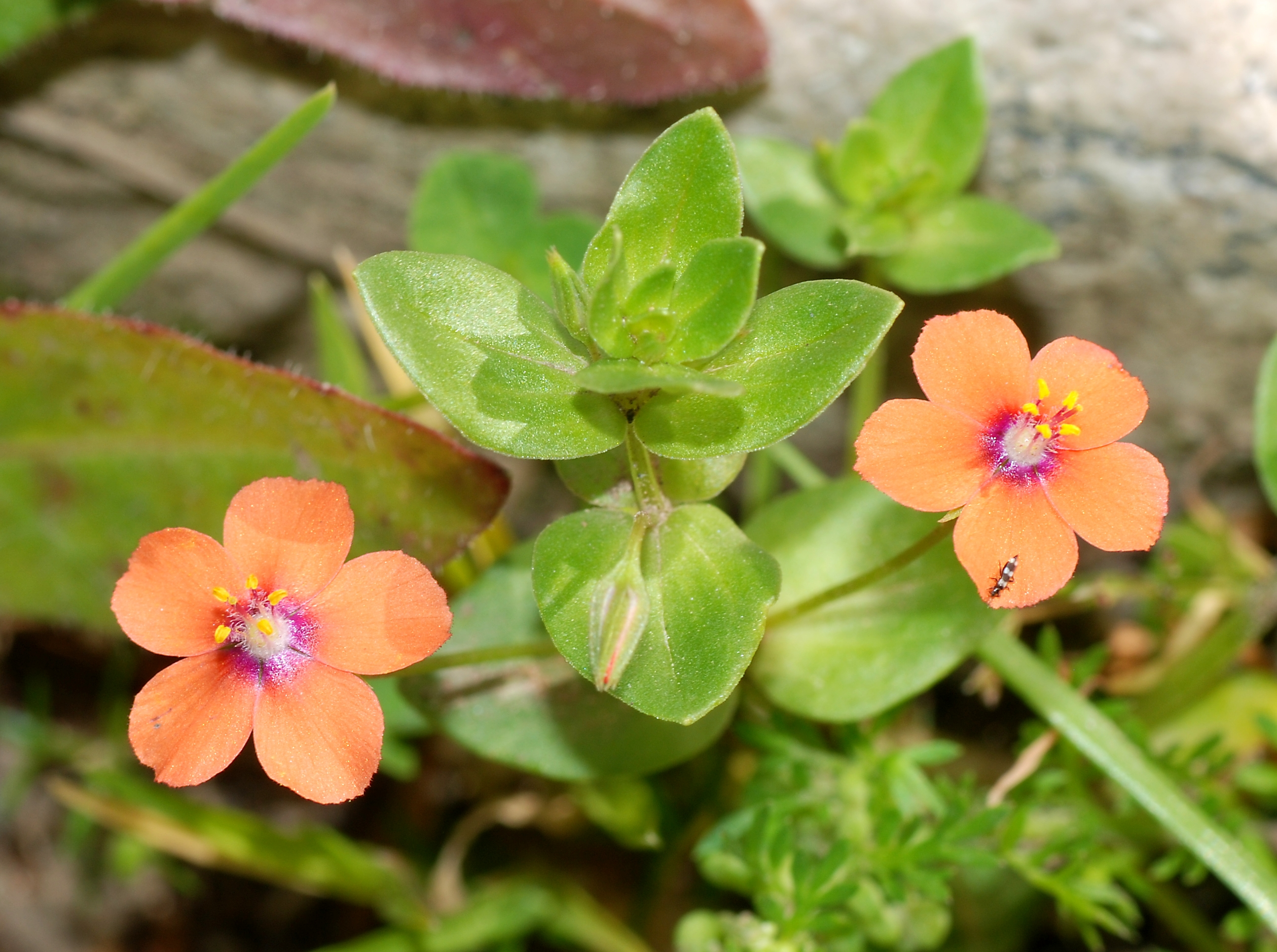 Scarlet Pimpinel